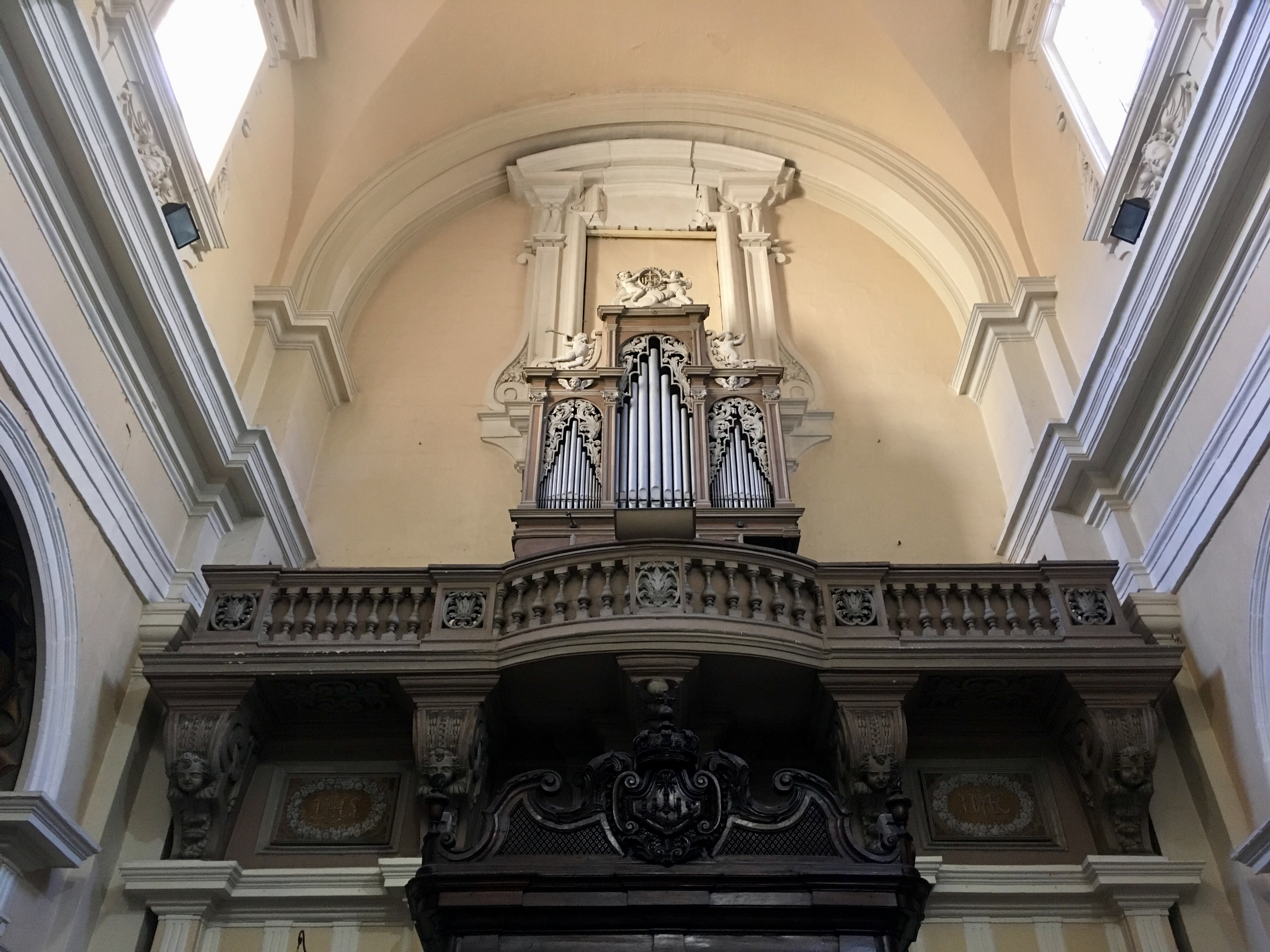 Organ at the Jesuits Church, Valletta